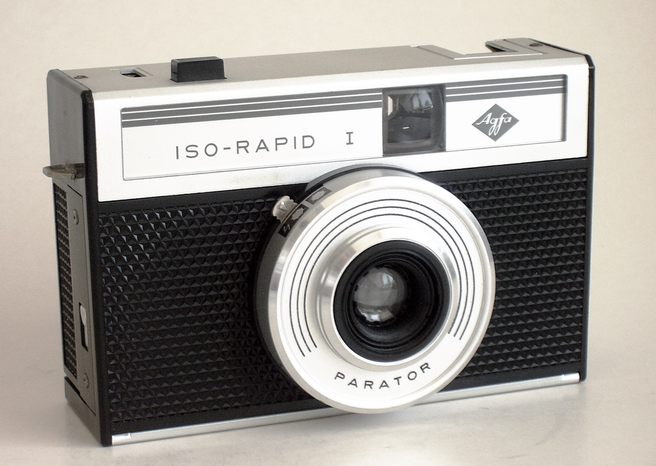 Agfa ISO-RAPID I camera. Uses Rapid film cartridges. Square film format 24 x 24 mm. Parator shutter with 2 speeds for sunny or cloudy weather. Fixfocus.